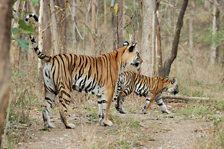 Tiger spotted close to LAMNI